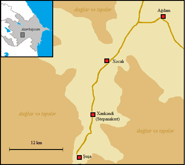 Nagorno Karabakh, Azerbaijan, Khojaly region.